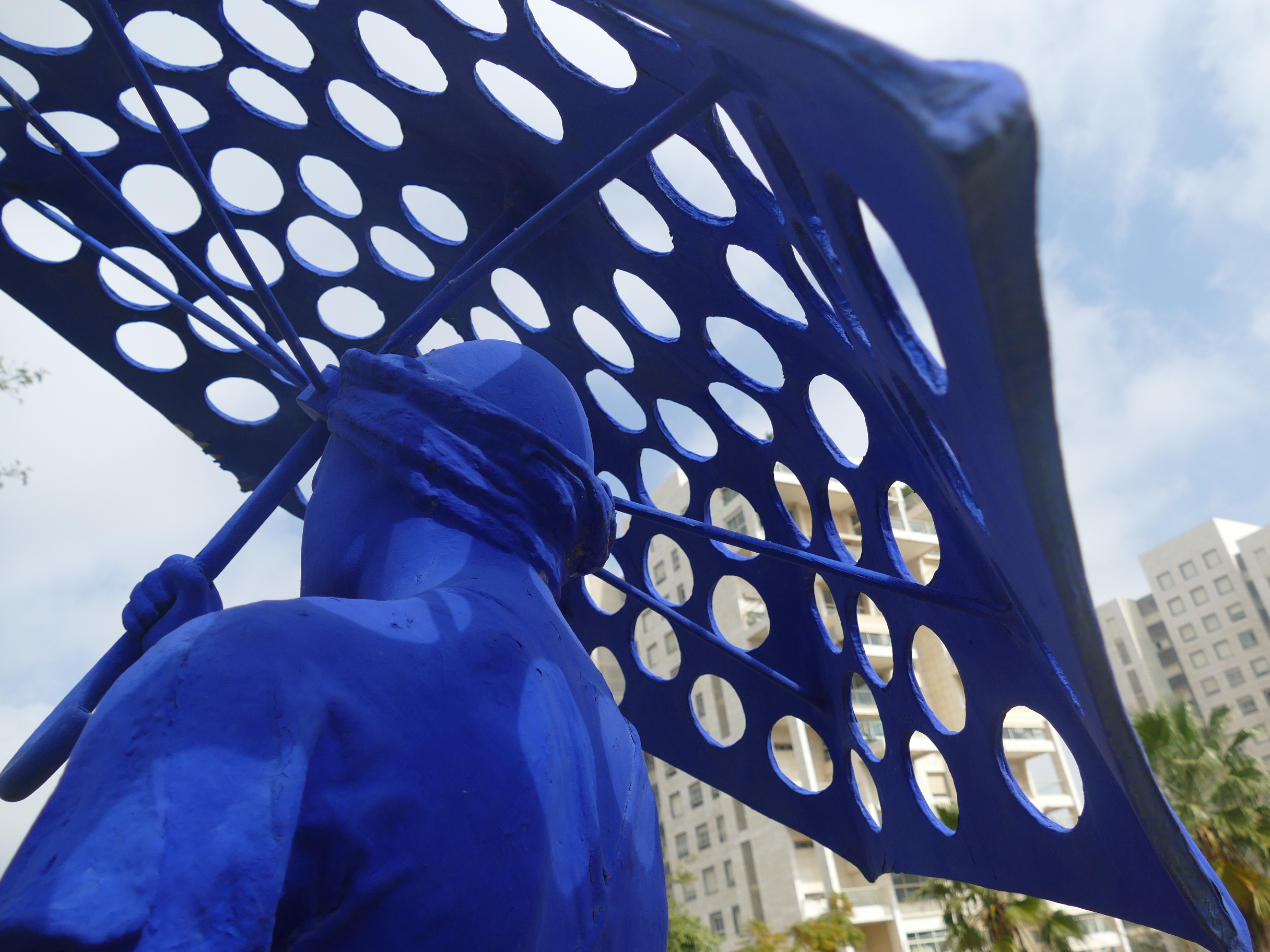 Ofra Chimbalista Sculptures